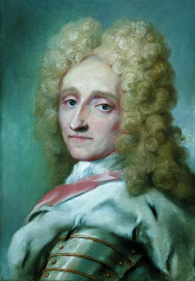 Frederik VI. On his trip abroad 1708-09 the Danish king traveled to Venice and let themself be portrayed by several artists, including the internationally famous Carriera, who had many of Europe's princes as customers.